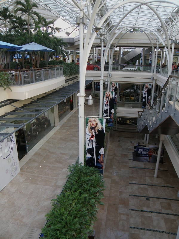 ABC mall in Beirut